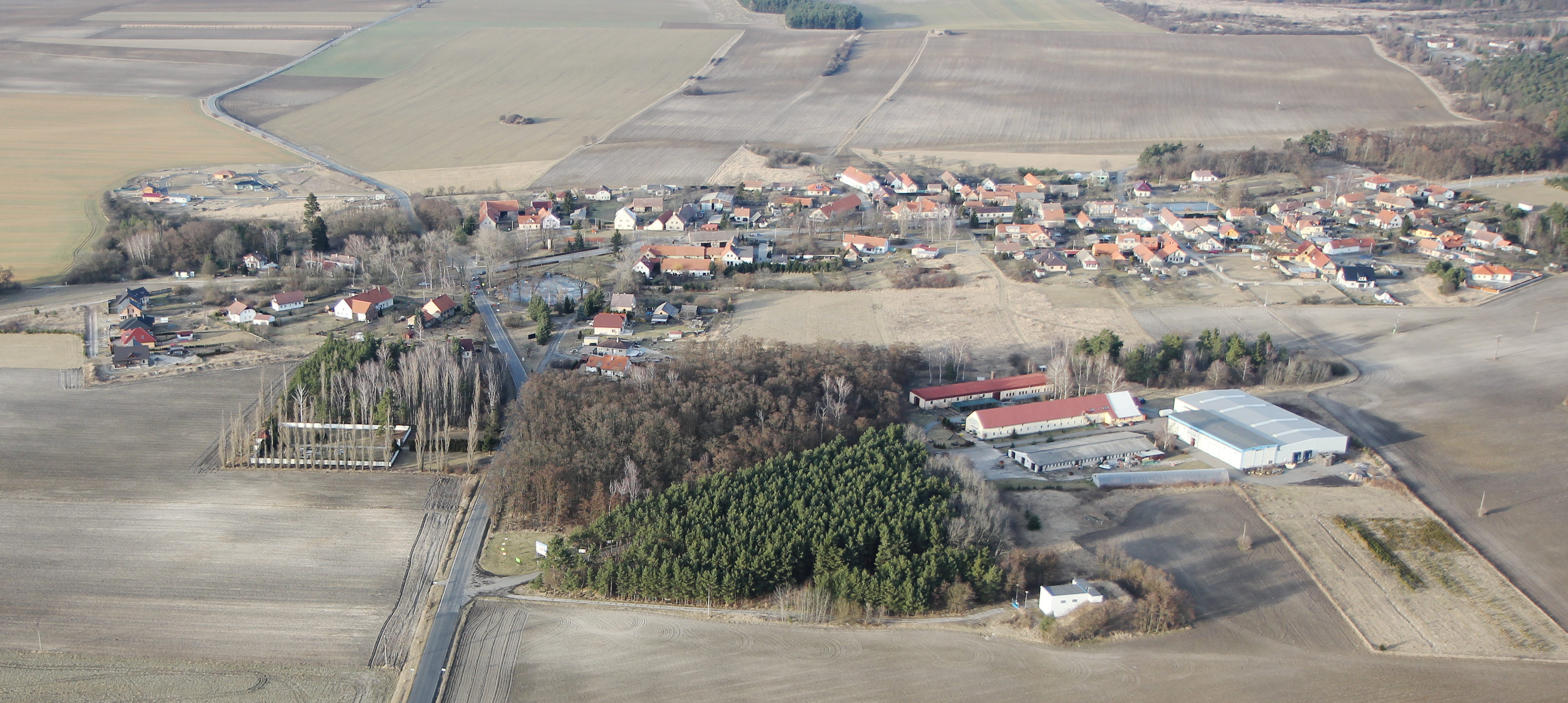 aerial photo